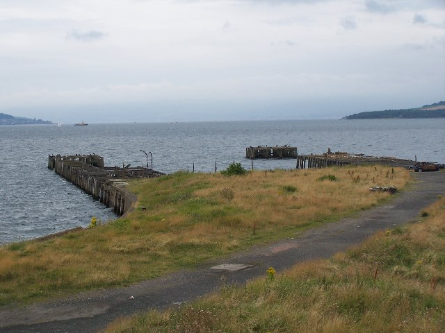 Craigendoran Pier. Taken from the railway bridge.